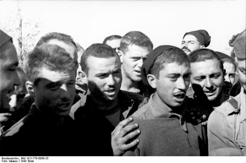 Information added by Wikimedia users.*